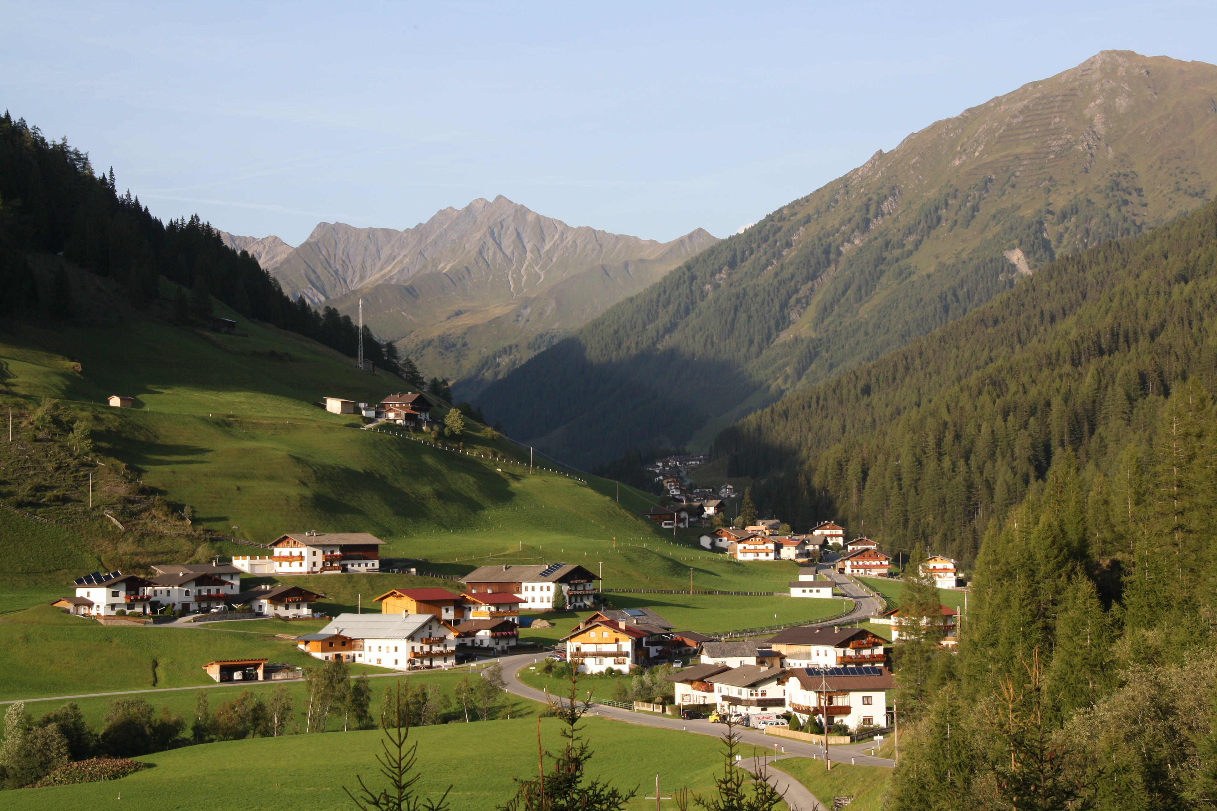 Austria, Tyrol (state), Schmirn. The village is scattered along the regional road L 229.